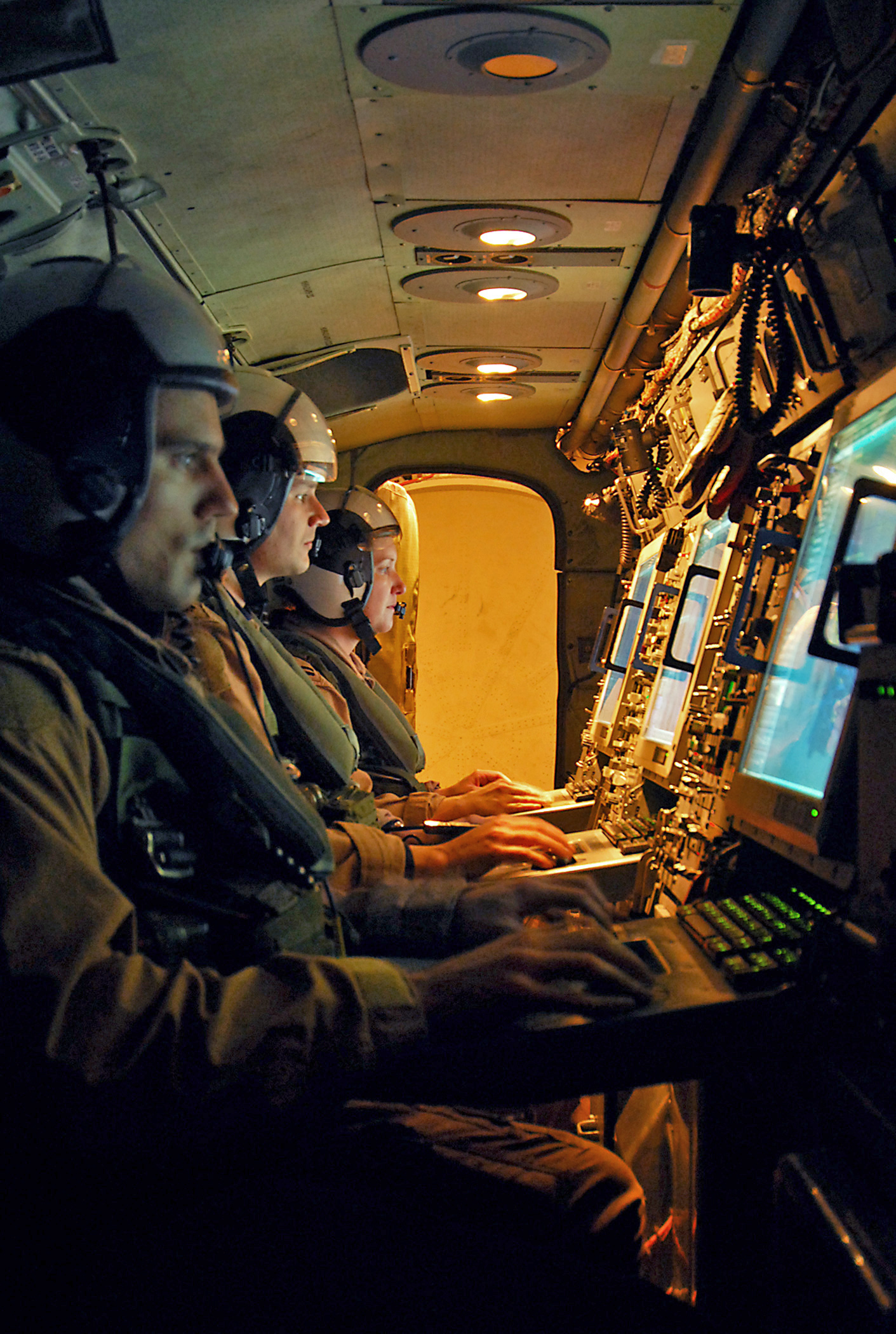 080304-N-2984R-336 PERSIAN GULF (March 5, 2008) Lt. j.g. Curtis Reiss, left, Lt. Cmdr. Matthew Duffy and Lt. Cheryl Zeiss, all assigned to the "Seahawks" of Carrier Airborne Early Warning Squadron (VAW) 126, gather radar analysis data inside the fuselage of an E-2C Hawkeye during flight operations aboard the Nimitz-class aircraft carrier USS Harry S. Truman (CVN 75). Using sophisticated radar monitoring systems, crewmembers are able to expand the range carriers are able monitor contacts during flight operations. Truman and embarked Carrier Air Wing (CVW) 3 are deployed supporting Operations Iraqi Freedom, Enduring Freedom and maritime security operations. U.S. Navy photo by Mass Communication Specialist 3rd Class Ricardo J. Reyes (Released)